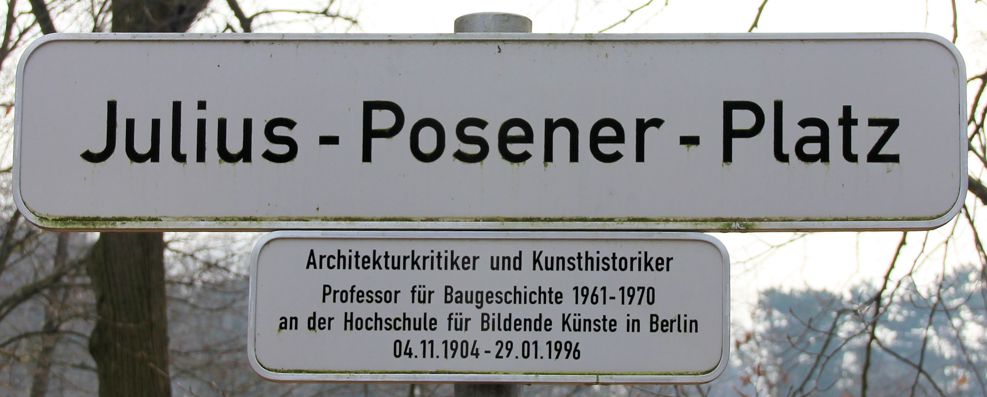 Memorial plaque, Julius Posener, Julius-Posener-Platz , Berlin-Nikolassee, Germany